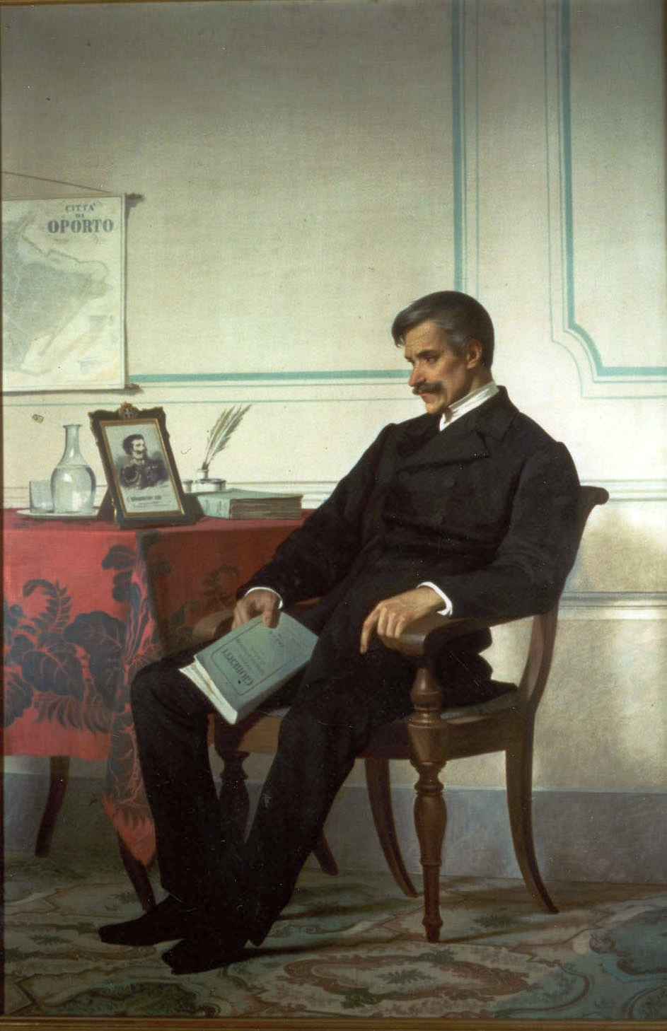 Carlo Alberto, former king of Sardinia, in exile in Oporto